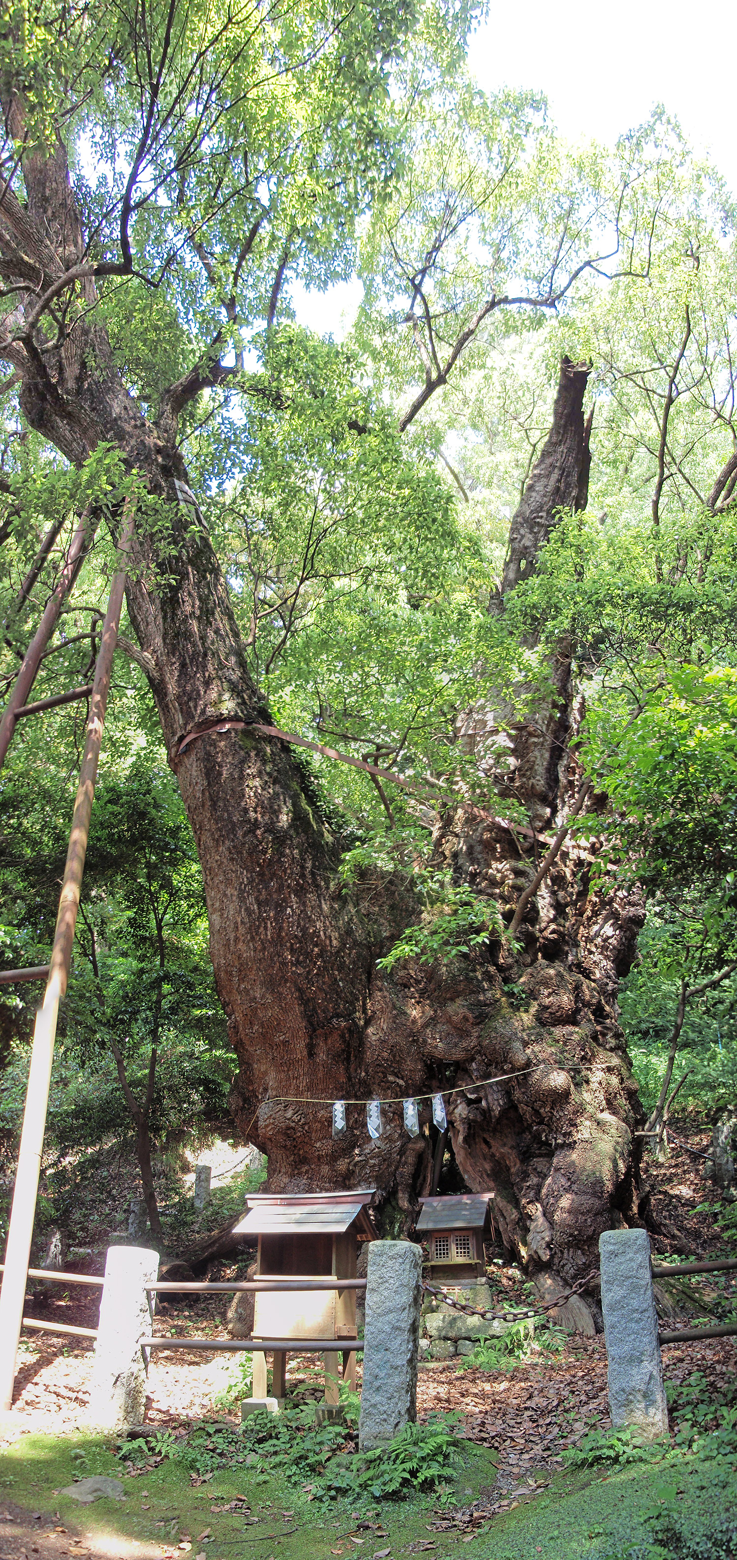 Kuzumijinja-no-Okusu (Grand Cinnamomum camphora tree of Kuzumi Shrine) in Ito, Shizuoka Prefecture, Japan.